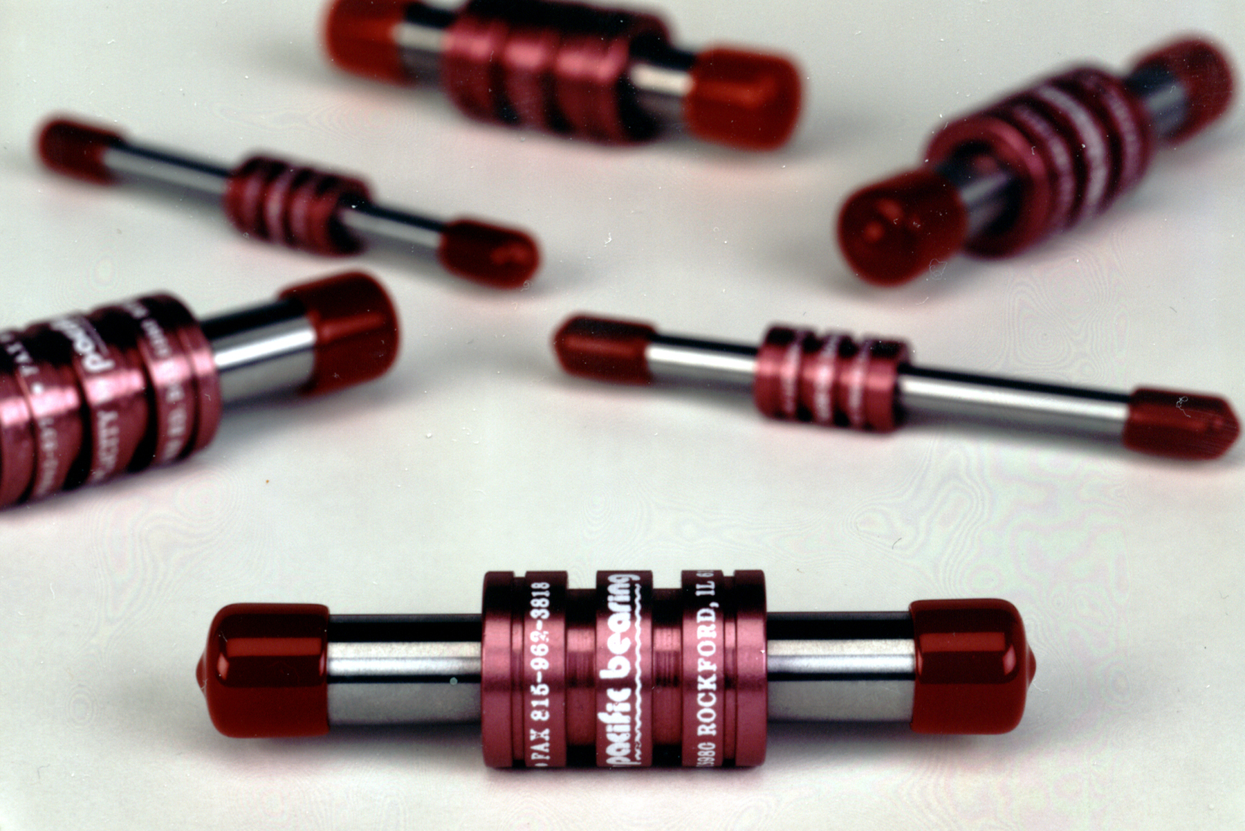 PBC Linear's Simplicity Stress Relievers shown in multiple sizes.